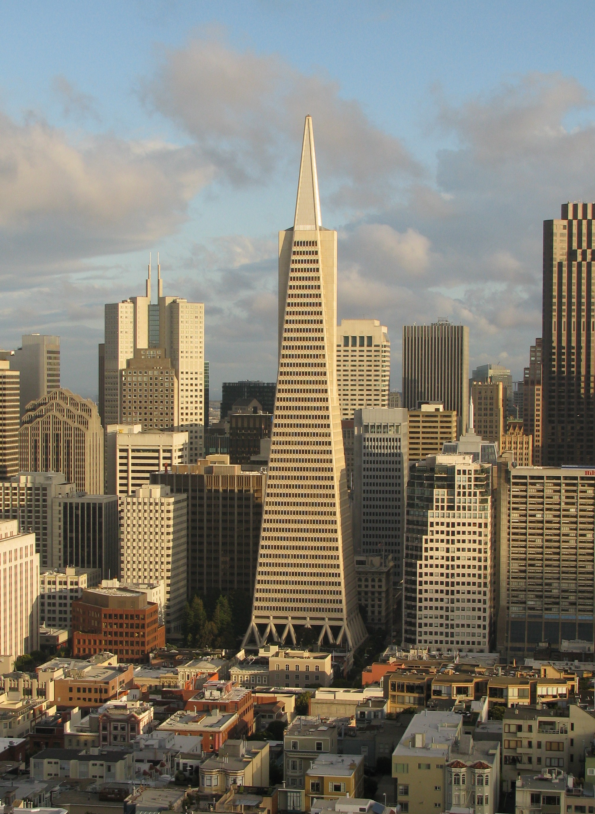 Image of Transamerica building taken from Coit Tower Location: San Francisco, California, USA